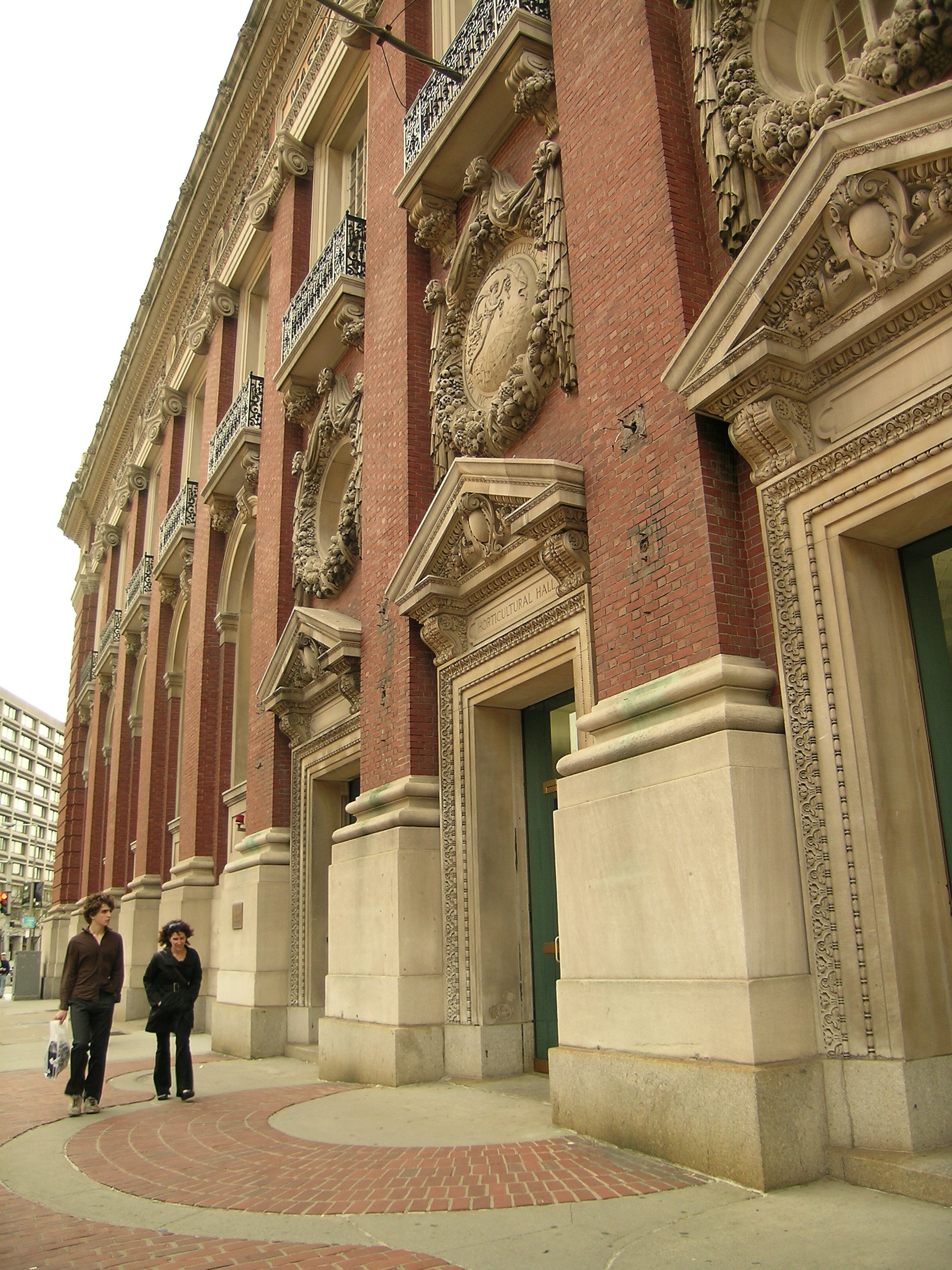 Horticultural Hall at the corner of Huntington Avenue and Massachusetts Avenue in Boston, Massachusetts. April 2008 photo by John Stephen Dwyer.